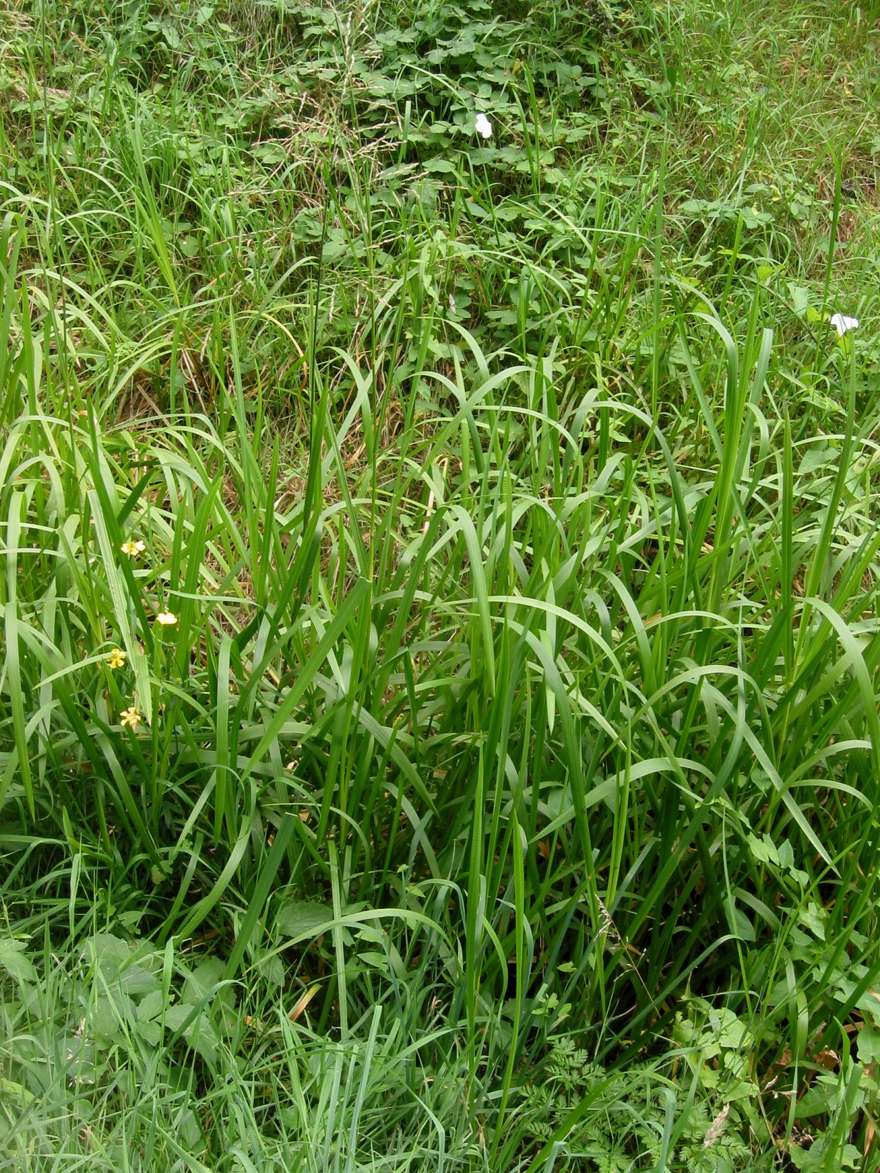 Glyceria maxima